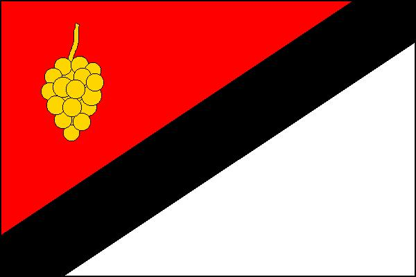 Municipal flag of Radějov village, Hodonín District, Czech Republic.